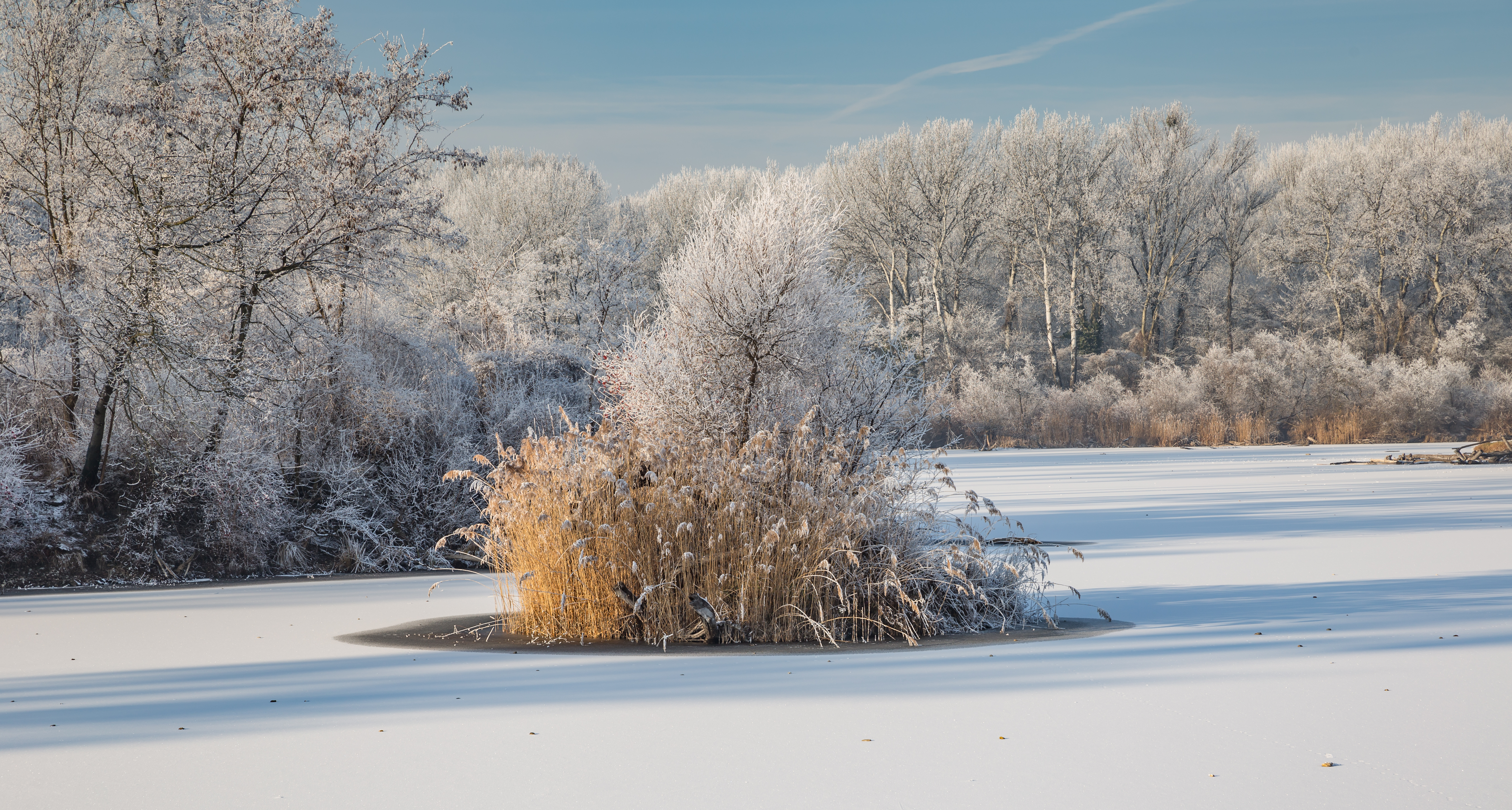 Dechantlacke and surroundings in winter, Lobau, Vienna